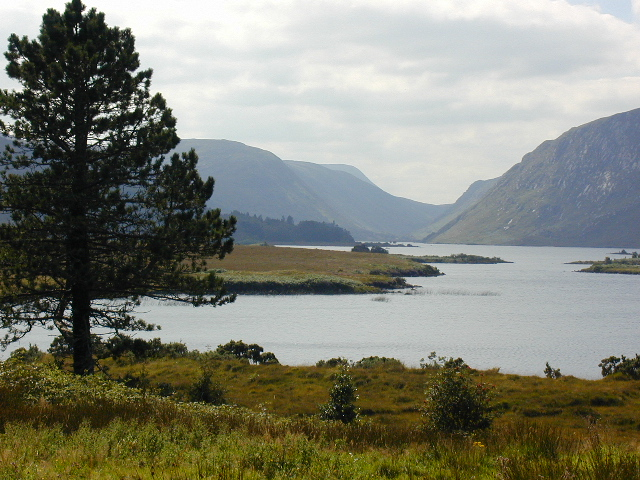 Lough Beagh